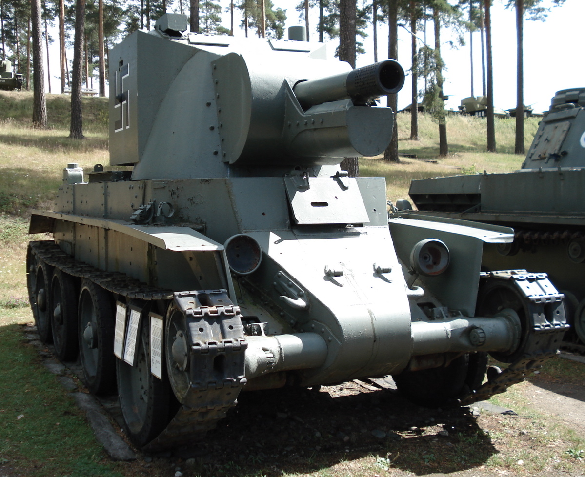 Finnish BT-42 assault gun, created by placing a turret armed with a 114 mm gun on the chasis of the Soviet BT-7 fast tank. As all the BT tanks captured by Finland were scrapped soon after 1945, this is the only surviving example of this family of tanks in any Finnish museum. Displayed in Finnish Tank Museum (Panssarimuseo) in Parola. Photo taken on July 14, 2006. Source: Photo by me, User:Balcer.